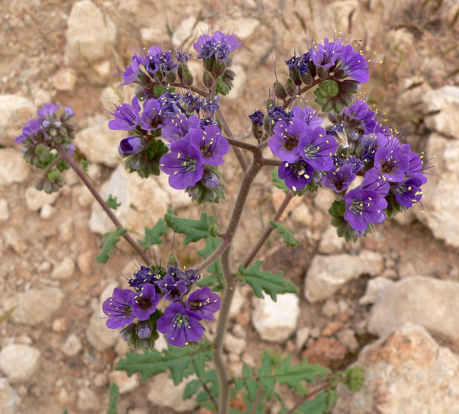 Photo of Phacelia crenulata in the desert west of Las Vegas, Nevada (just off the end of Tropicana Avenue)